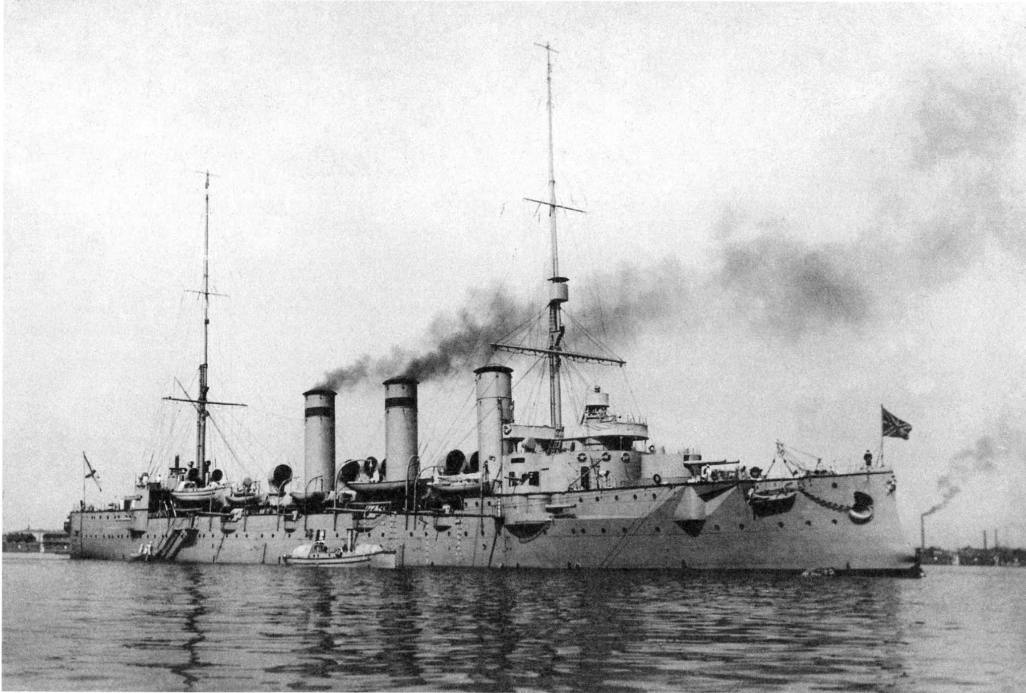 Imperial Russian cruiser Oleg.